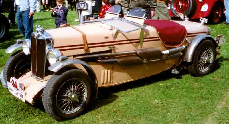 M.G. NE Magnette 2-Seater Racing 1934